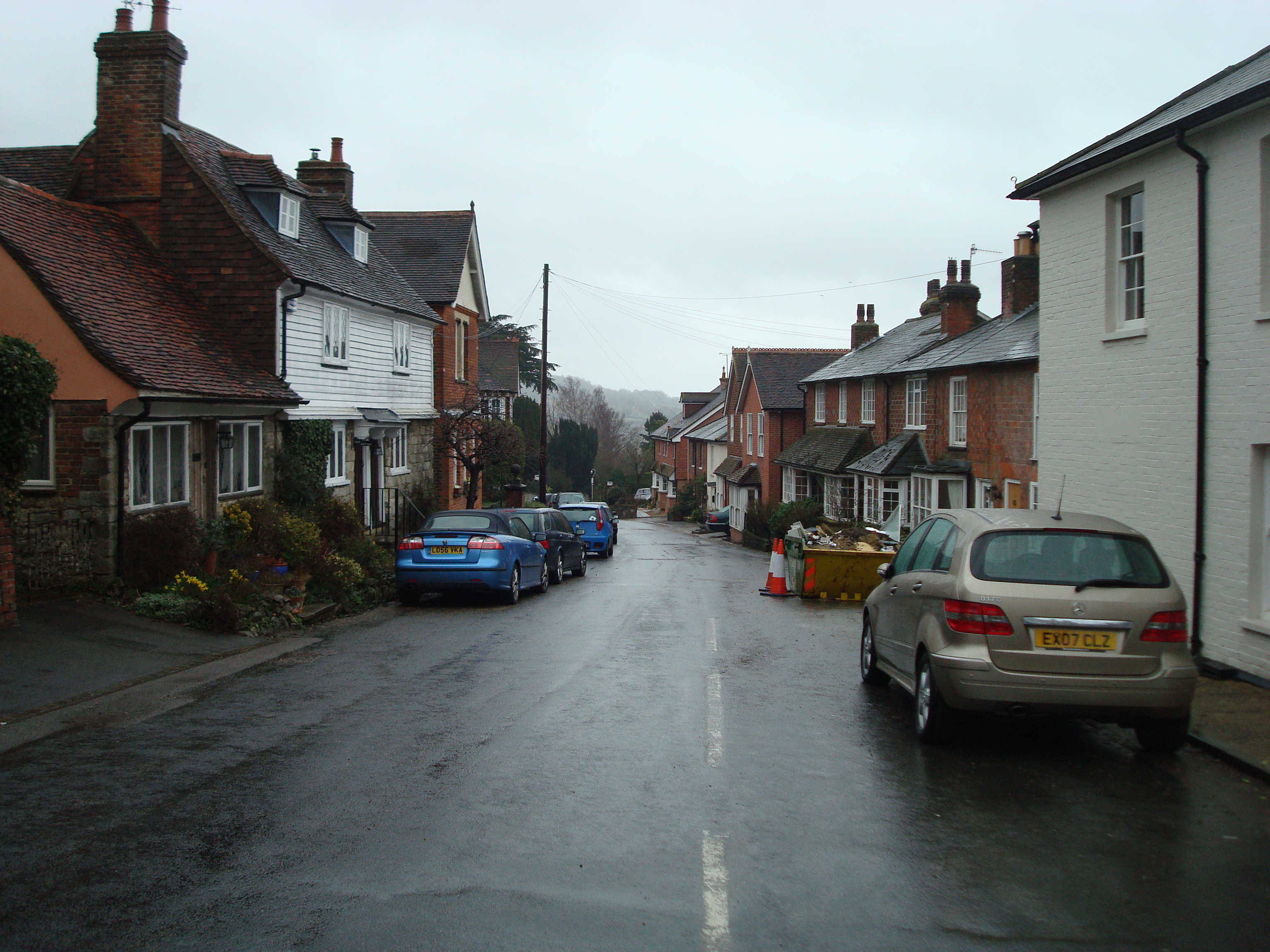 The Street, Plaxtol